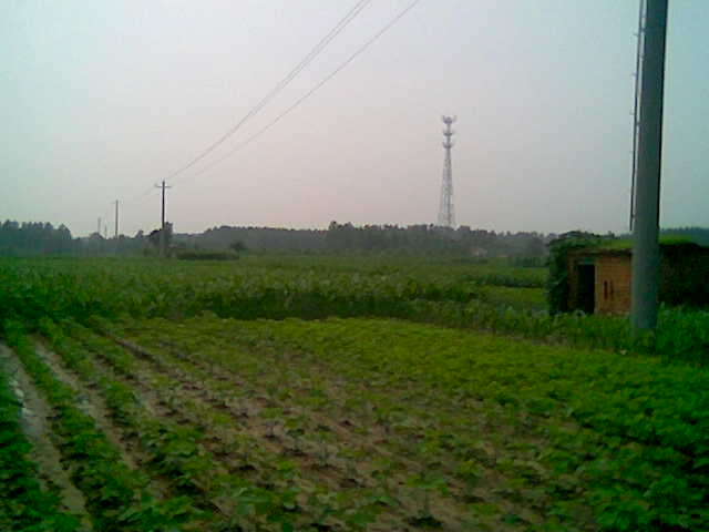 cropland of liulin